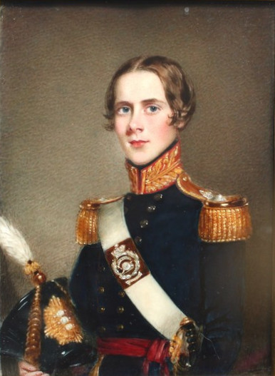 Described as "A fine portrait miniature of General Sir Edwin B Johnson (4 July 1825 – 18 June 1893)... wearing blue uniform with gold epaulettes and white cross belt, he holds his plumed helmet in his right hand... Set in the original red leather case with ormolu mount. " when sold at auction by Ellison Fine Art. Exhibited at the Comerford Collection at the Irish Architectural Archives in Dublin, in 2009. Watercolour on ivory; heinght 11cm